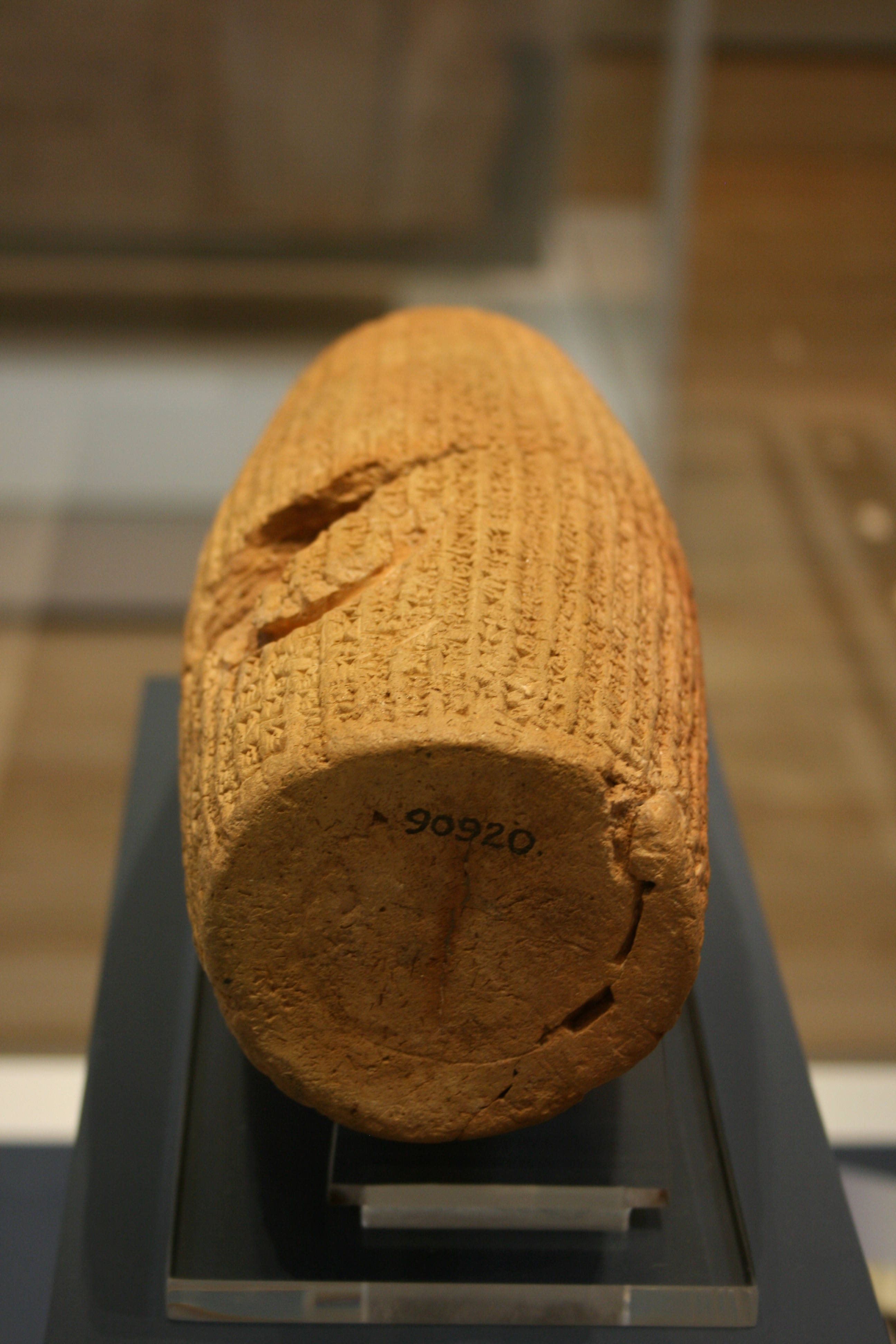 Cyrus cylinder in the British Museum.